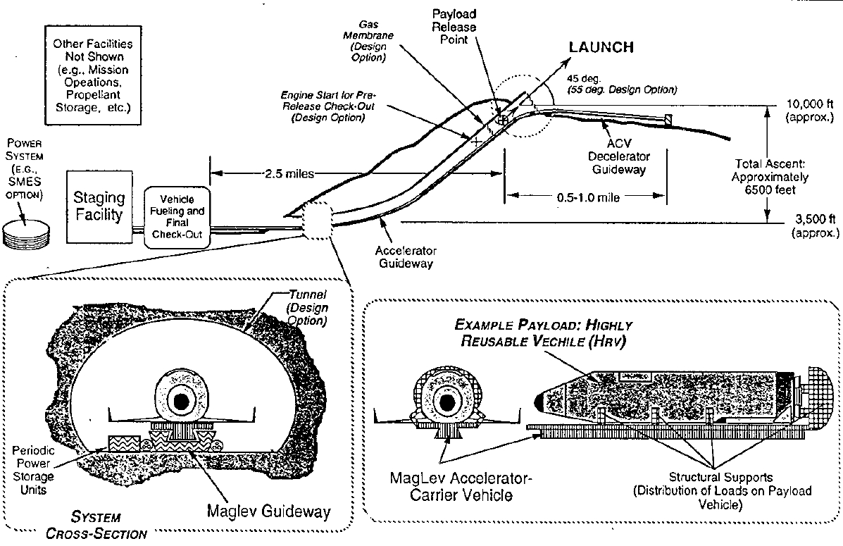 Maglifter system diagram